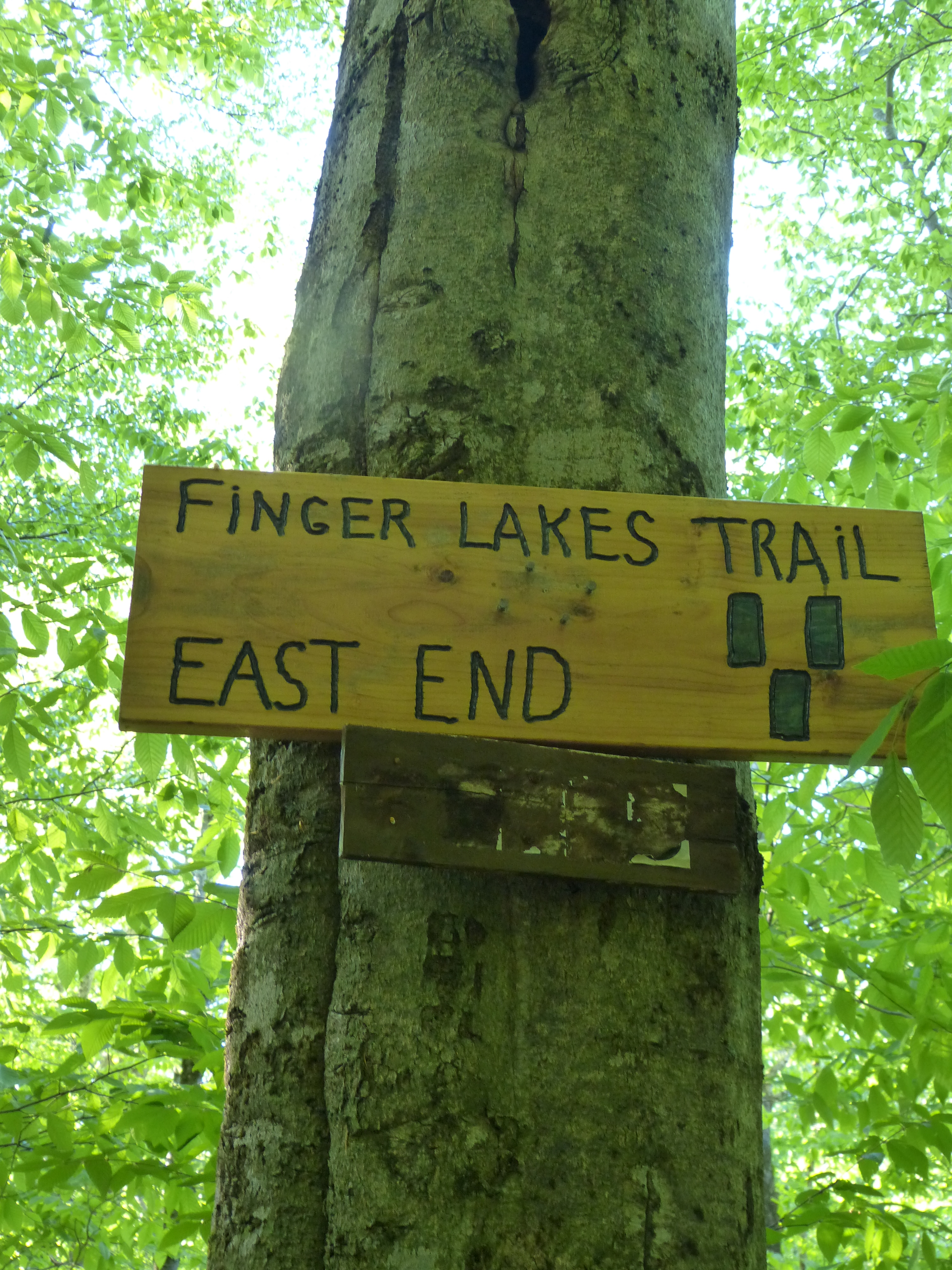 Handmade sign marking the eastern end of the Finger Lakes Trails in the Catskill Park.